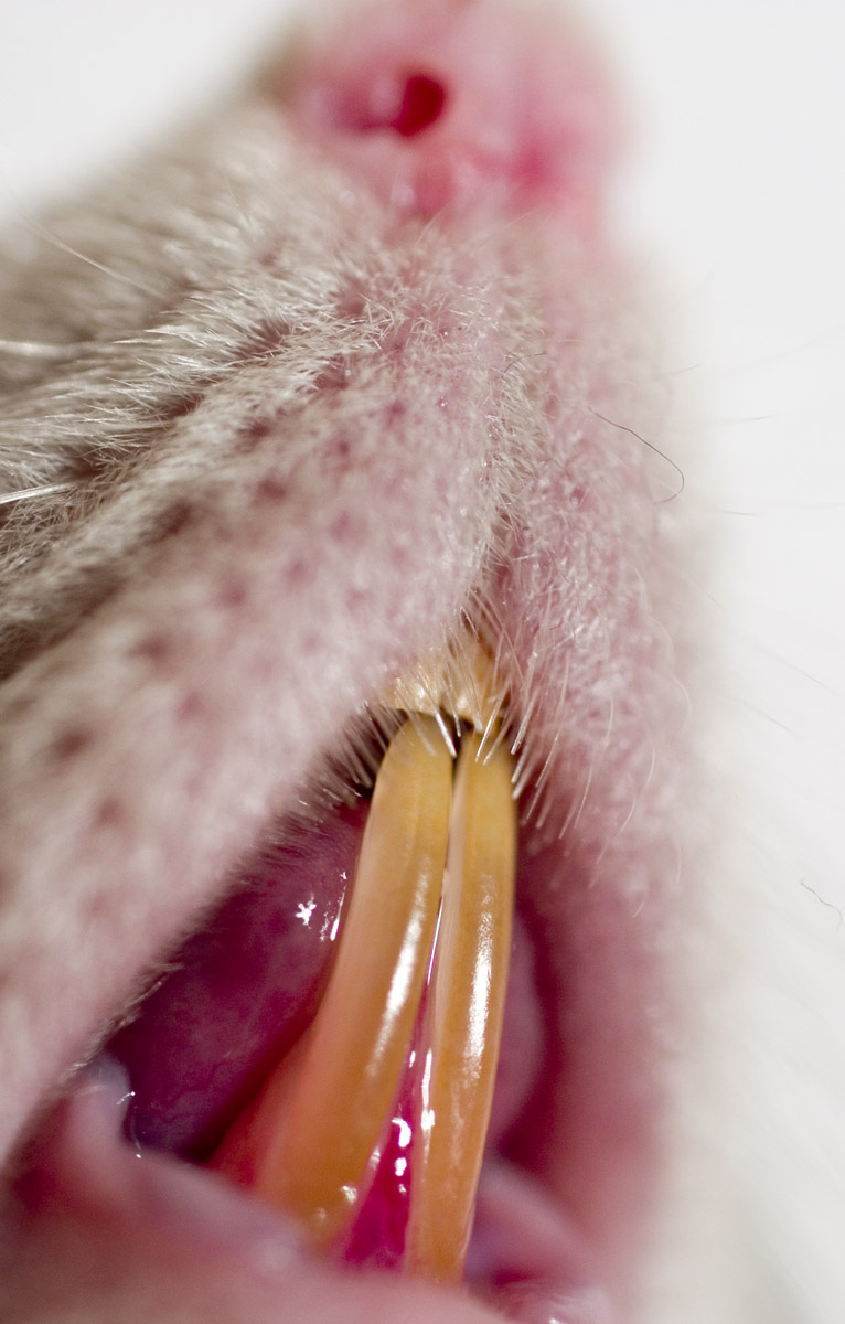 Closeup of overgrown incisors in R. norvegicus. This is a characterisitc trait of all rodents.